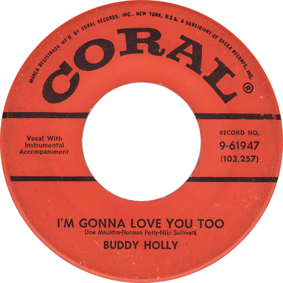 One of side-A labels of the US retail 7-inch (45 RPM) vinyl single "I'm Gonna Love You Too" by Buddy Holly